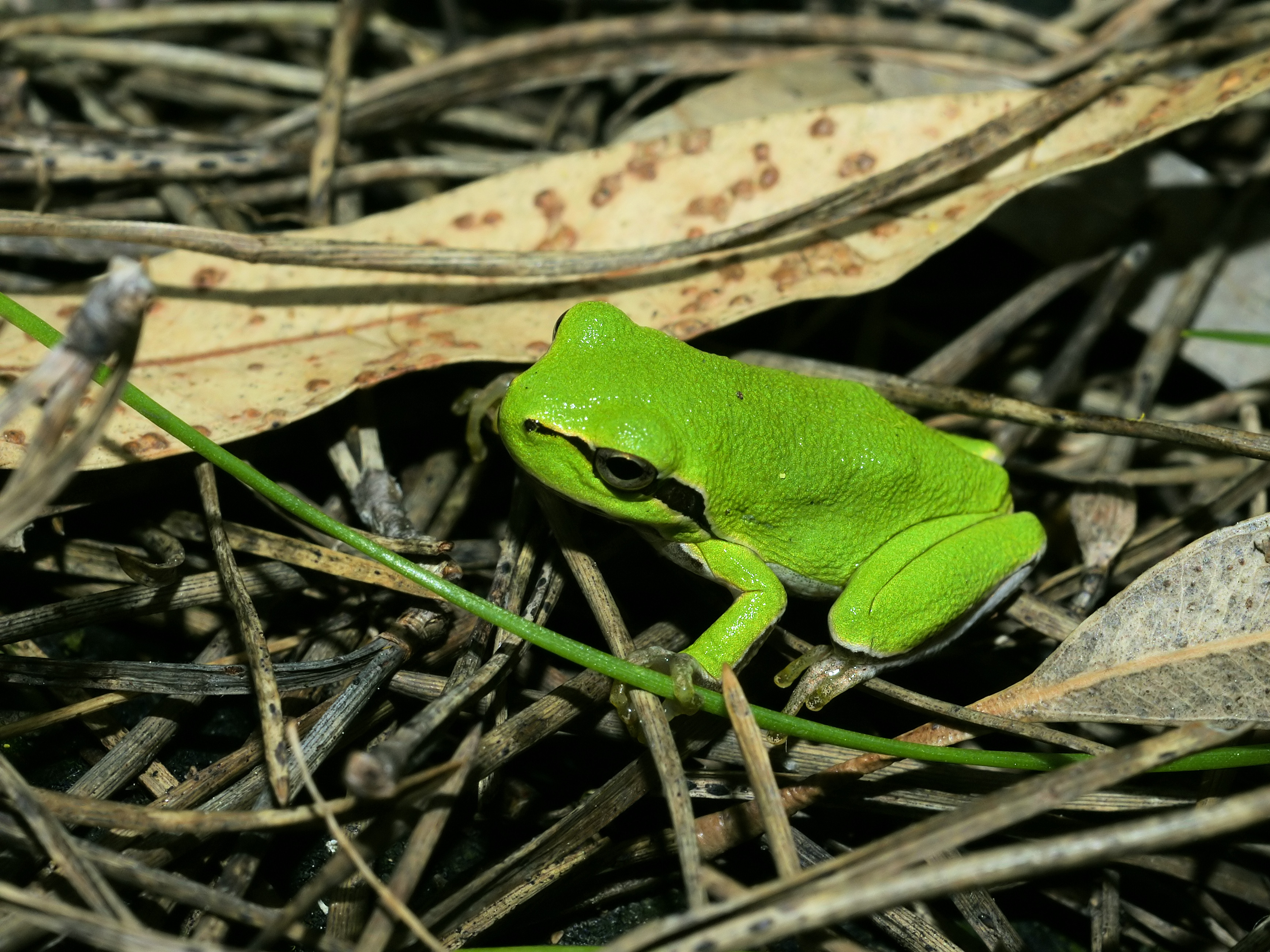 Tyrrhenian Tree Frog close to Torregrande, Sardinia, Italy